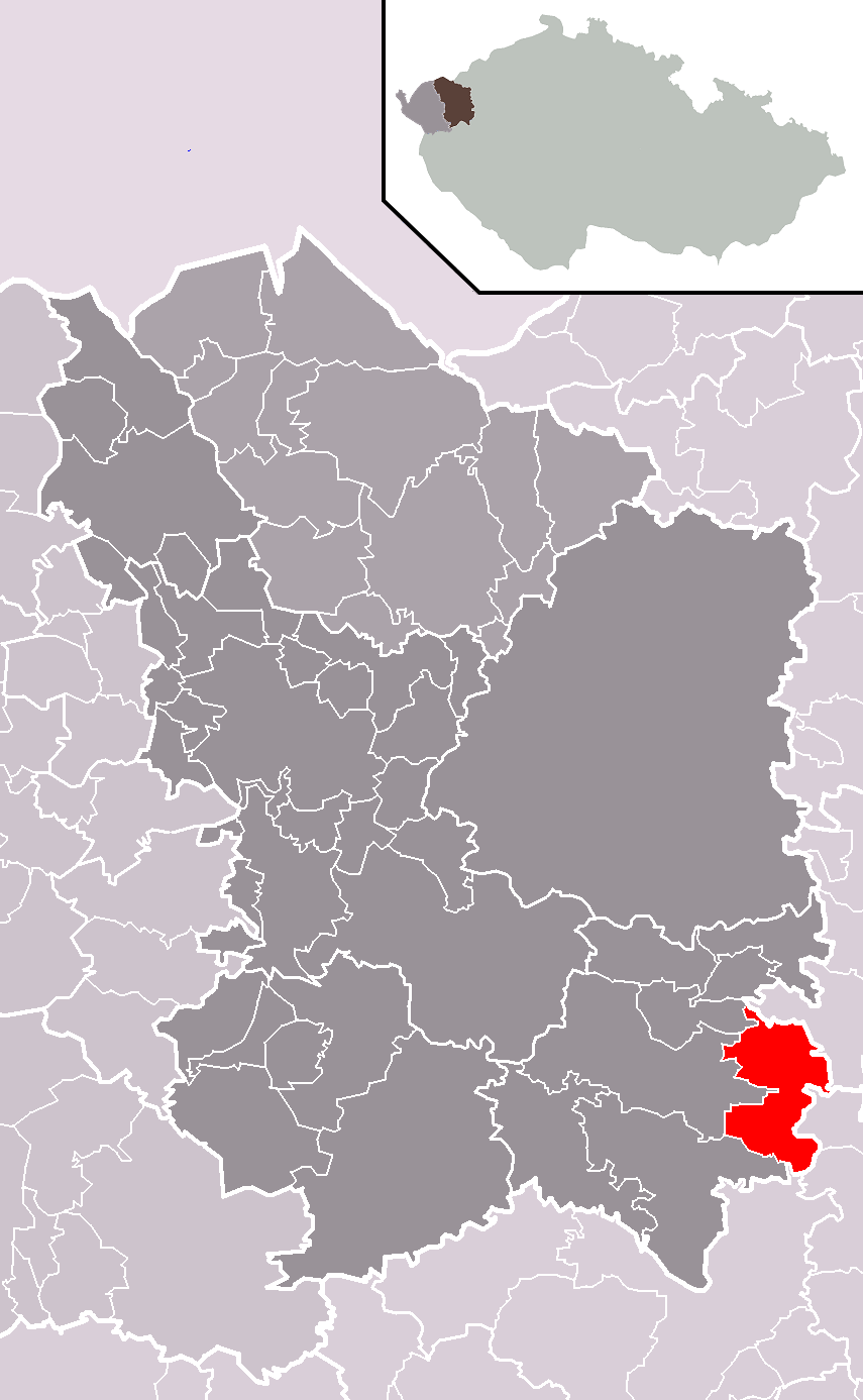 Location of Chyše town within Karlovy Vary District and administrative area of Karlovy Vary as a Municipality with Extended Competence.